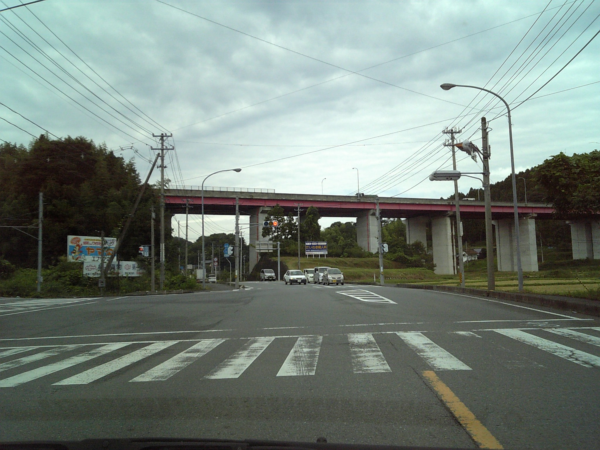 The Fukushima Prefectural Road Route 48 in Jobanmisawamachi, Iwaki City